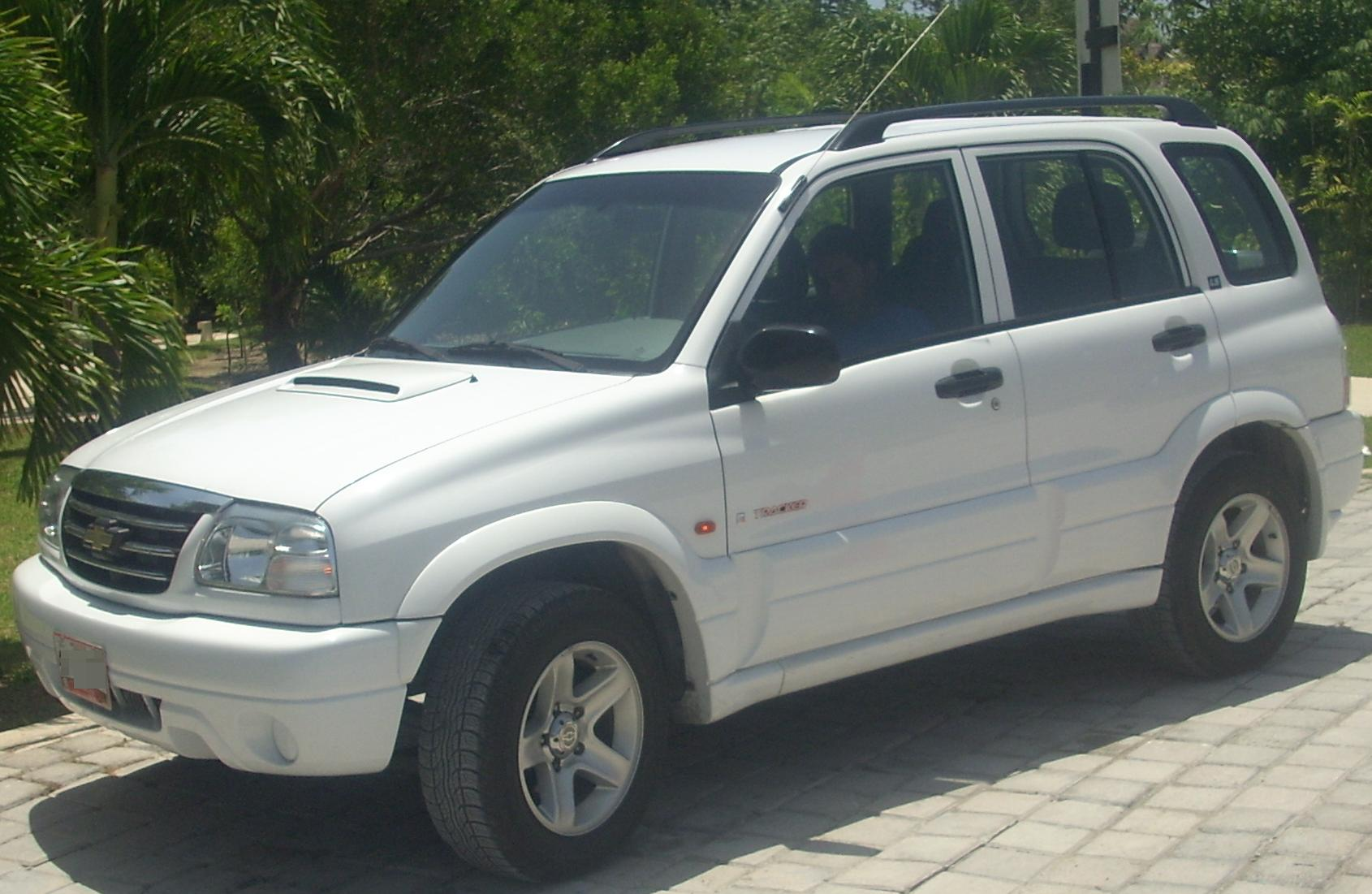 2006-2008 Chevrolet Tracker photographed in Cancun, Quintana Roo, Mexico